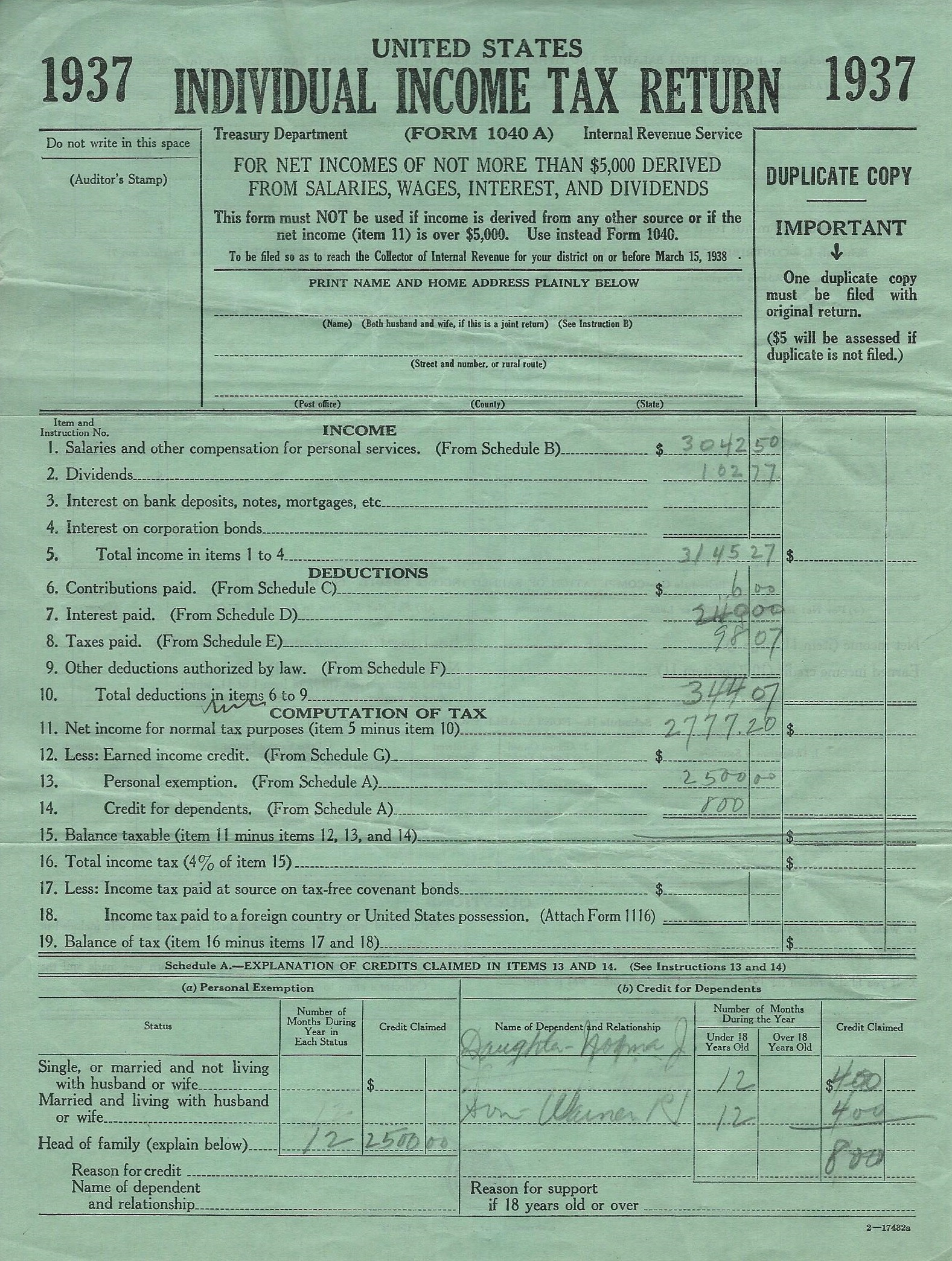 The front page of IRS Form 1040A for tax year 1937. Parts of the form have been filled out in pencil by a taxpayer in Missouri as a draft for the submitted copy of the form.